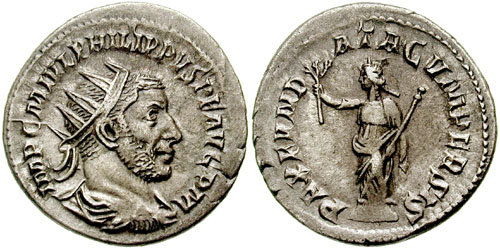 Philippus Arabus. 244-249 AD. AR Antoninianus (22mm, 4.27 gm). Antioch mint. Struck 244 AD. IMP C M IVL PHILIPPVS P F AVG P M, radiate, draped, and cuirassed bust right PAX FVNDATA CVM PERSIS, Pax standing front, head left, holding branch and transverse sceptre. RIC IV 69; Hunter 120; RSC 113. Toned VF.